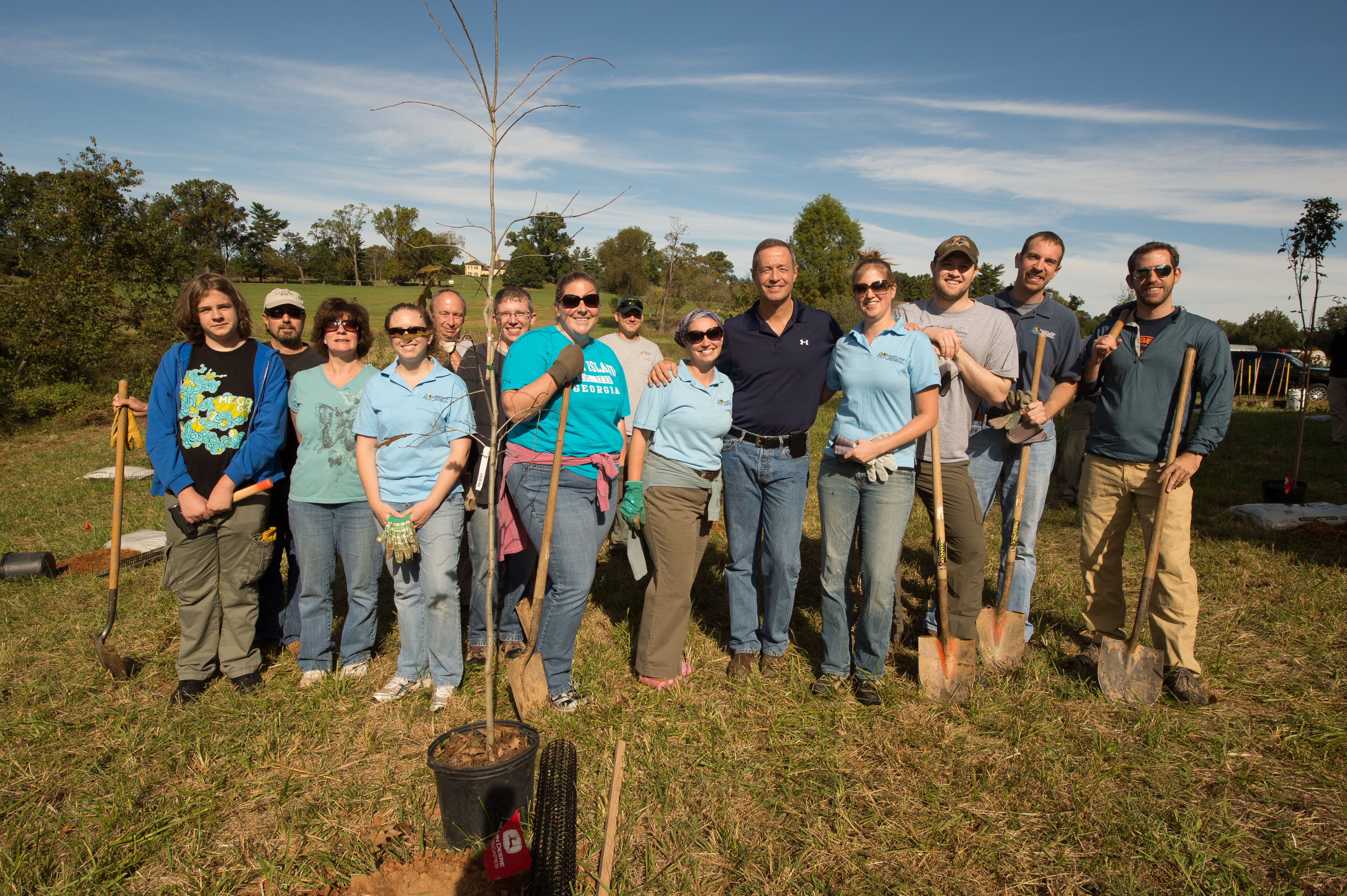 Day of Service Tree Planting at Patapsco State Park. by Jay Baker at Elkridge, MD.